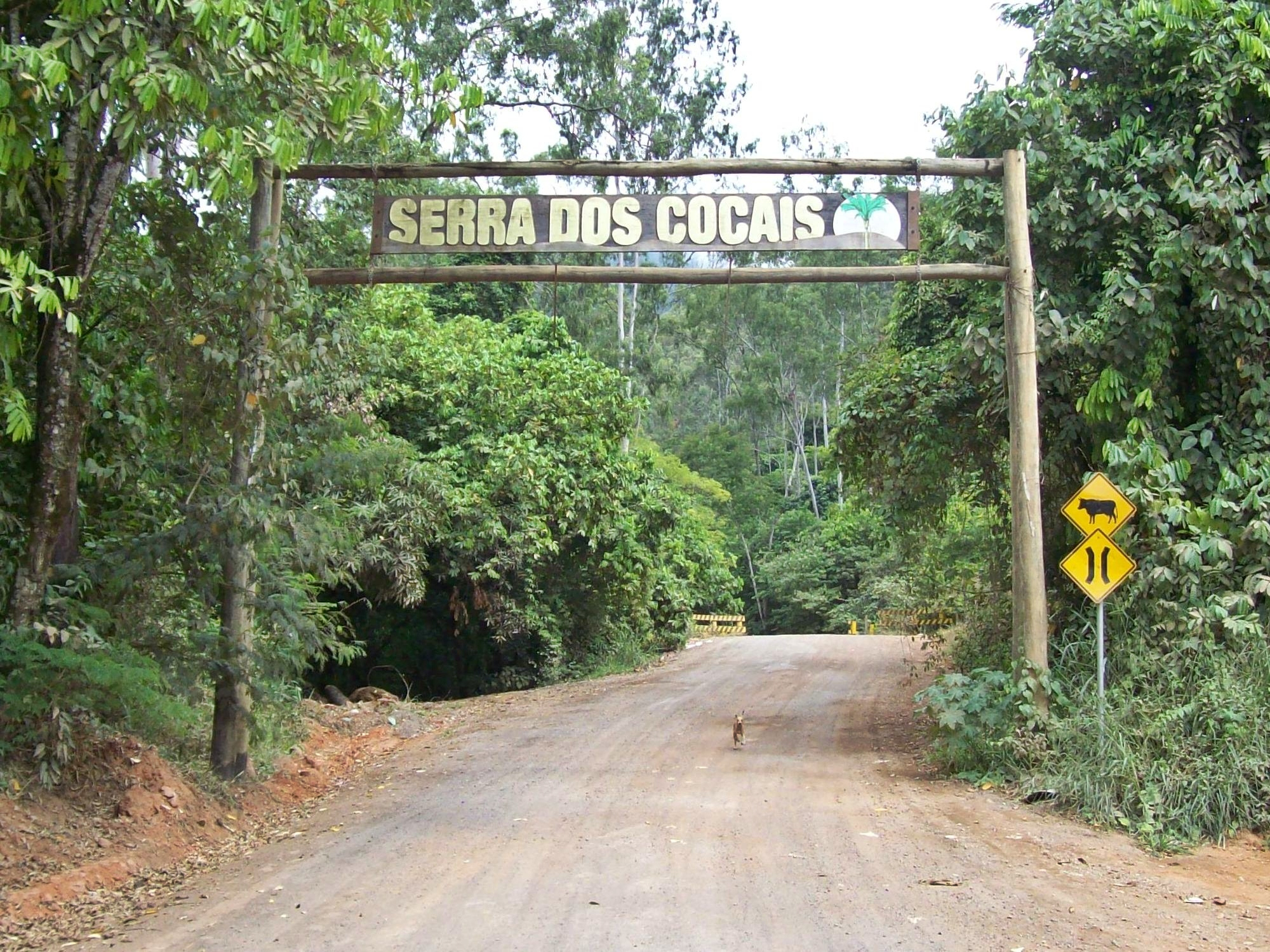 Entrance of the Serra dos Cocais, em Coronel Fabriciano, Minas Gerais, Brazil.